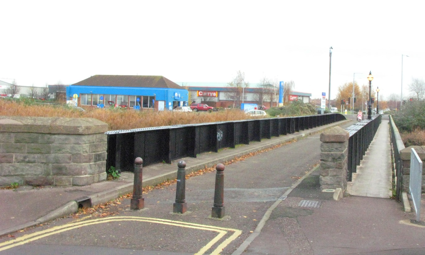 The former railway bascule bridge across the River parrett in Bridgwater, Somerset, England. The bridge had one fixed section and two moveable sections; to open it for ships to pass the first moveable section was rolled to the side and then the second was pulled back into the space vacated by the first.